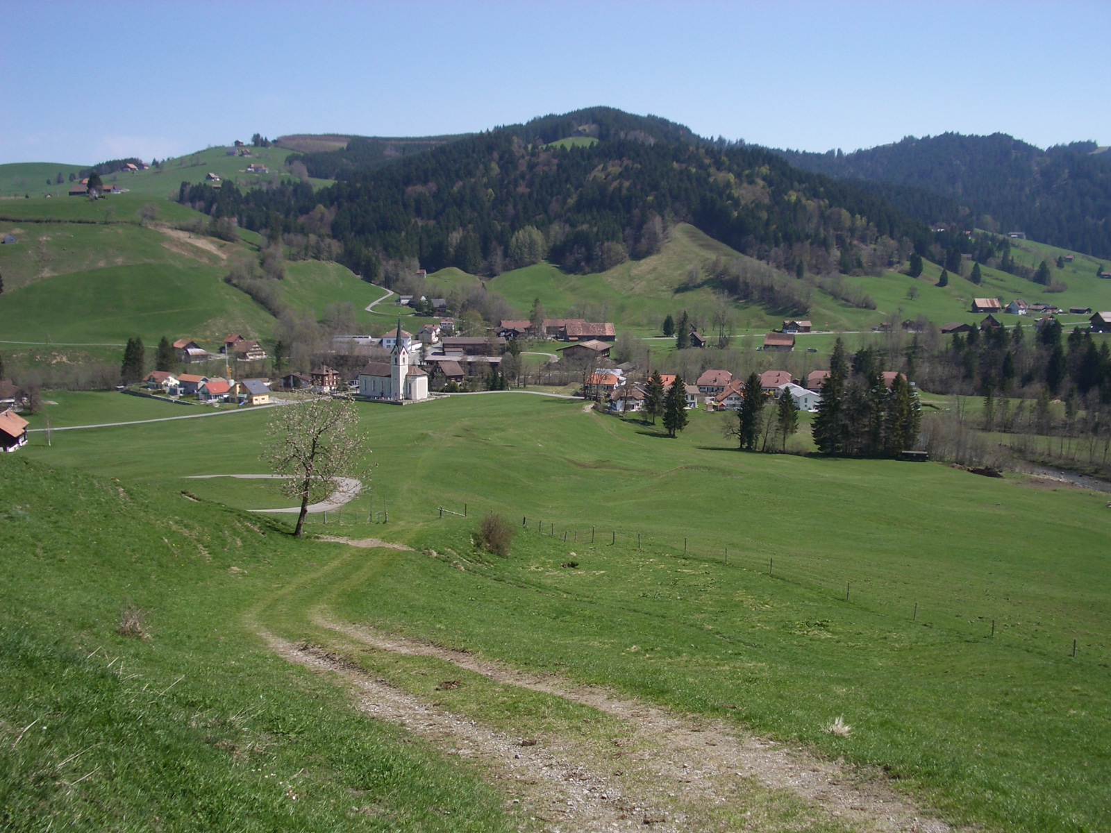 Egg SZ, Switzerland